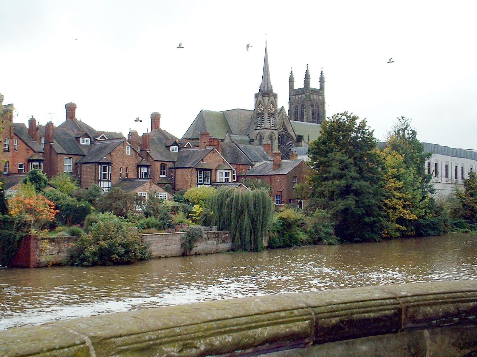 View across the River Leam towards the Parish Church of All Saints from Jephson Gardens, Leamington Spa, Warwickshire. Taken by Necrothesp, 26 October 2005. Subject to disclaimers. Subject to disclaimers.